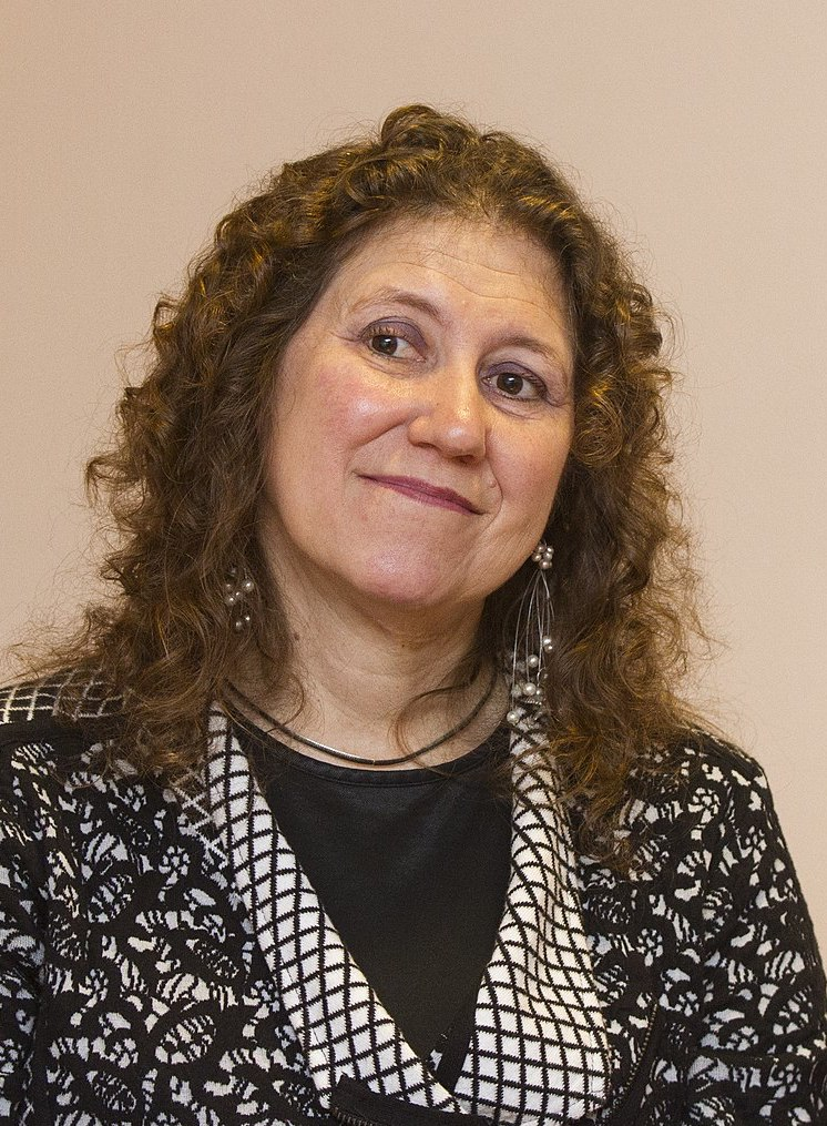 Rosario, 23 de julio de 2018.- “Astronomía con ondas Gravitacionales” charla a cargo de la.científica argentina Gabriela González con la presencia del Ministro de Cultura de la Nación, Pablo Avelluto, el Presidente de la Academia Nacional de Ciencias Exactas, Físicas y Naturales y Co-Chair de S20, Roberto Williamsen; en Plataforma Lavardén..Foto: Soledad Amarilla / Ministerio de Cultura de la Nación